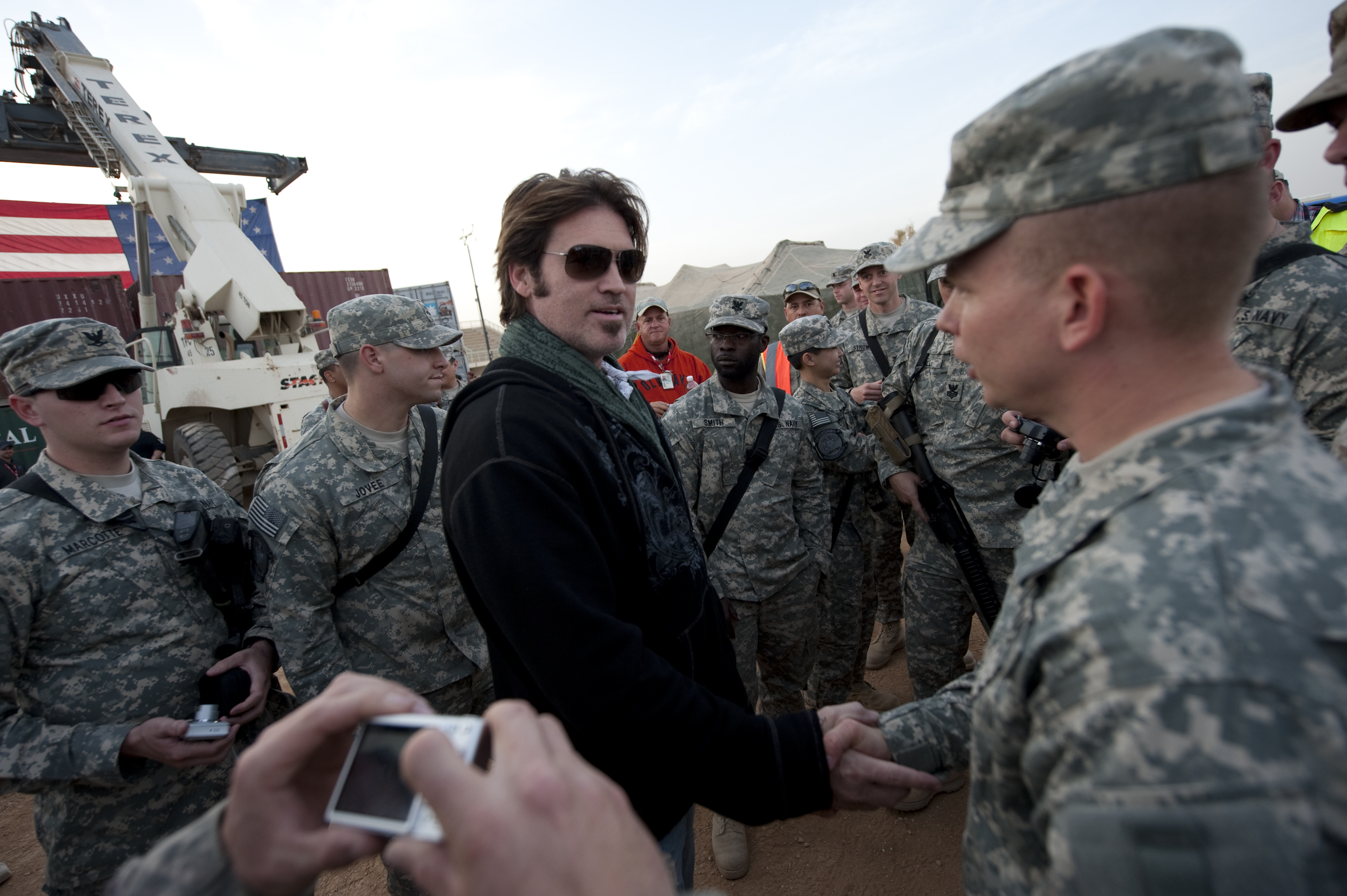 Musician Billy Ray Cyrus greets troops in Al-Asad, Iraq on Dec. 19, 2009. Navy Adm. Mike Mullen, chairman of the Joint Chiefs of Staff in Iraq, Dec. 19, 2009. Navy Adm. Mike Mullen, chairman of the Joint Chiefs of Staff and his wife Deborah are hosting the USO Holiday Troop Visit with tennis star Anna Kournikova, comedian Dave Attell, tennis coach Nicholas Bollettiere visiting troops in Afghanistan, Iraq and Germany. (DoD photo by Mass Communication Specialist 1st Class Chad J. McNeeley/Released)